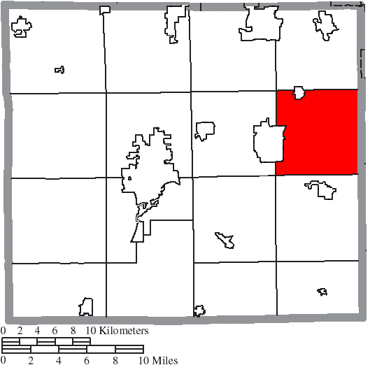 Map of the municipal and township boundaries of Wayne County, Ohio, United States, as of the 2000 census, with the location of Baughman Township highlighted. Township borders are shown only in unincorporated areas in order to differentiate incorporated and unincorporated areas more clearly.